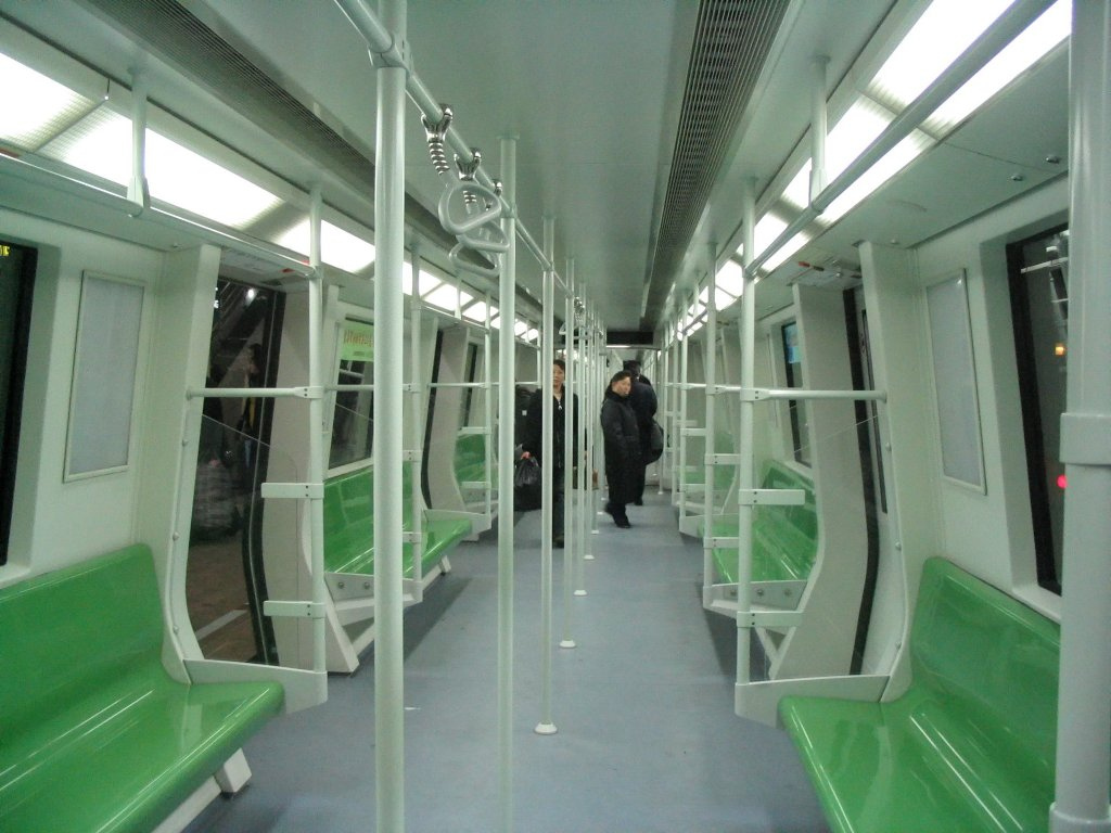 上海軌道交通9號線列車車廂 此型號曾經在1號線使用 Interior of Shmetro Line 9 Train. This train model has been used in Line 1.